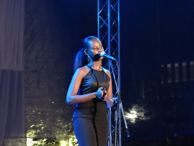 Mumbi Macharia is a spoken word poet based in Nairobi Kenya. She is also commonly referred to as Kenyanshilling.